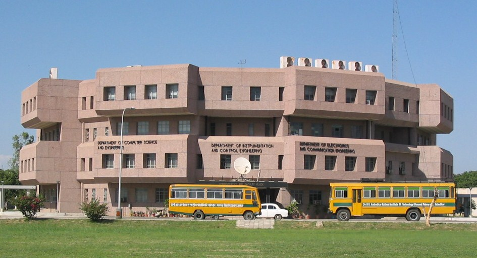 Dr. B. R. Ambedkar National Institute of Technology located in Jalandhar, Punjab, India. Main building of NIT-J.